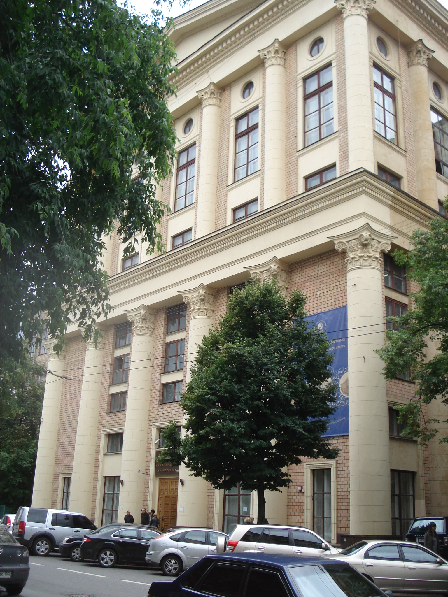 RGGU's main building, from Miusskaya Sq.